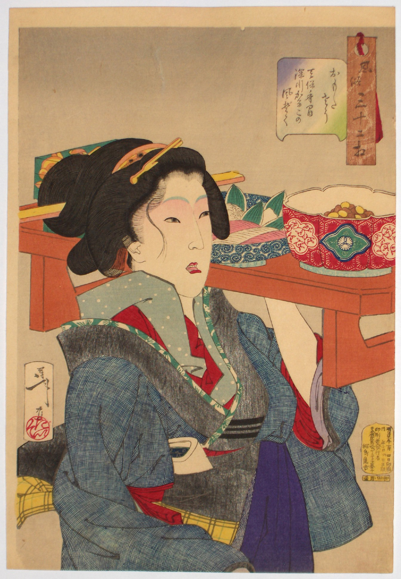 Tsukioka Yoshitoshi (1839 - 1892) "Looking Weighed-down: The Appearance of a Waitress at Fukagawa in the Tempo Era" ( 1830 - 1844 ). From the set: Thirty-two Aspects of Women published by Tsunashima Kamekichi, 1888. The waitress is shown carrying a tray of rice, sashimi and beans.